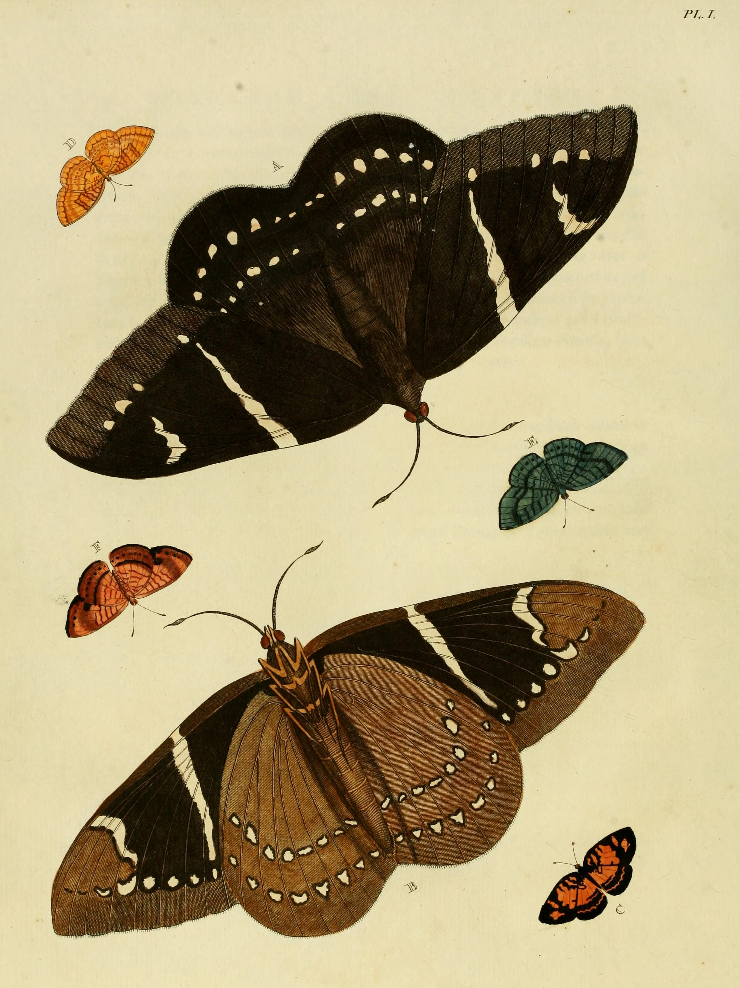 Plate I A, B: "(Papilio) Dedalus" ( = Eupalamides cyparissias (Fabricius, 1777), see Funet) C, D: "(Papilio) Liriope" ( = Ortilia liriope (Cramer, [1775]), iconotype?, see NHM, Global Lepidoptera Names Index and Funet) E, F: "(Phalaena) Lucinda" ( = Emesis lucinda (Cramer, [1775]), iconotype?, see Funet and photos at Barcode of Life) Also on plate 271 G, H as "(Papilio) Dyndima".